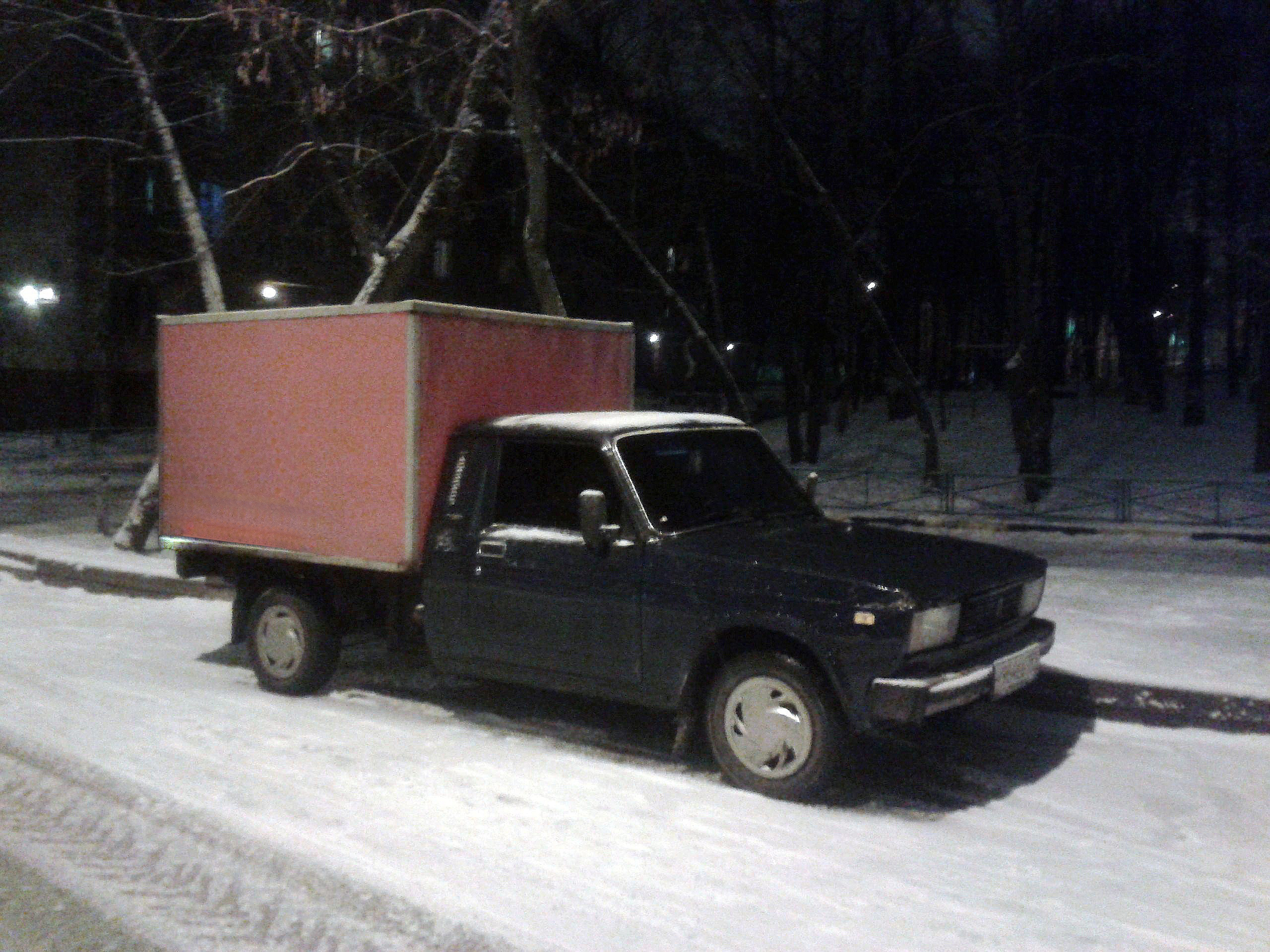 VIS-234500 Pick-Up, based on Lada-2104 components.